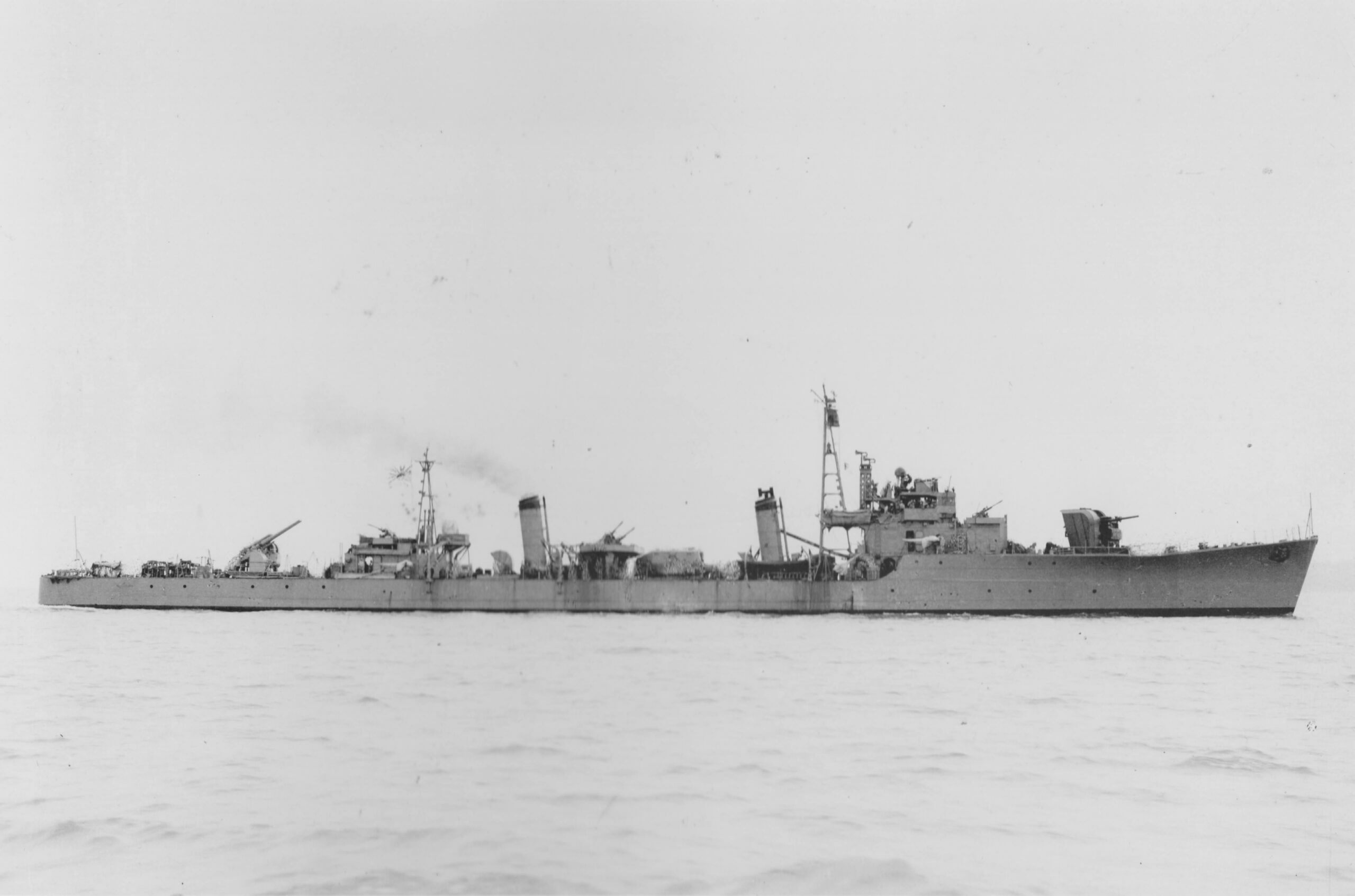 Take(II)(presumption), Matsu class destroyer of the Imperial Japanese Navy, at Tokyo Bay(presumption).